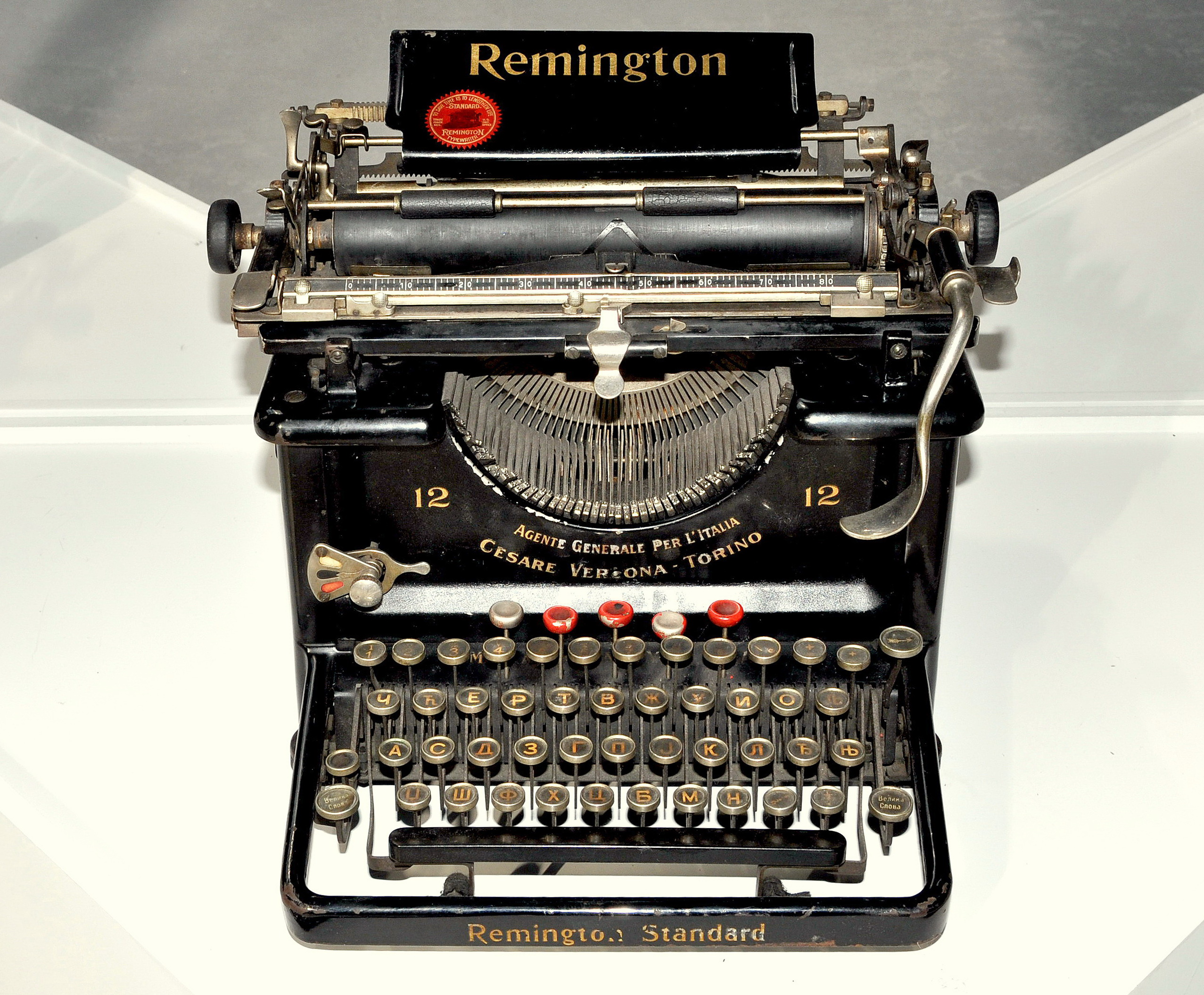 Remington typewriter No. 12 with Cyrillic letters. This model can be found in the Museum of Science and Technology Belgrade.